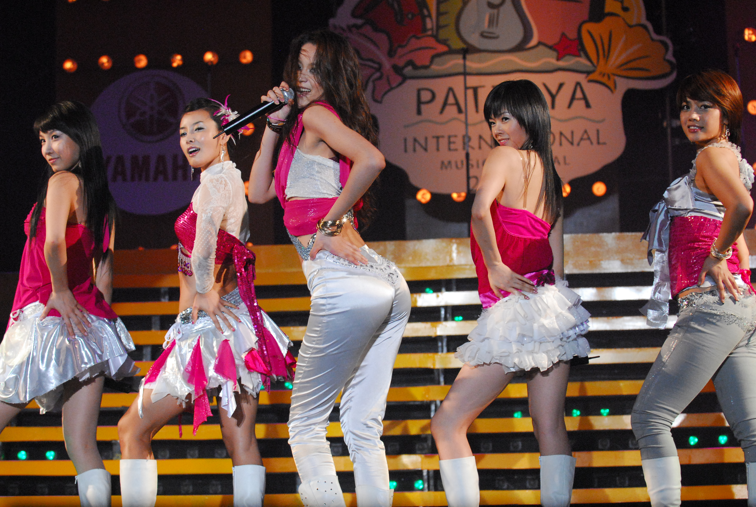 Baby Vox Re.V (Korean music girlgroup)